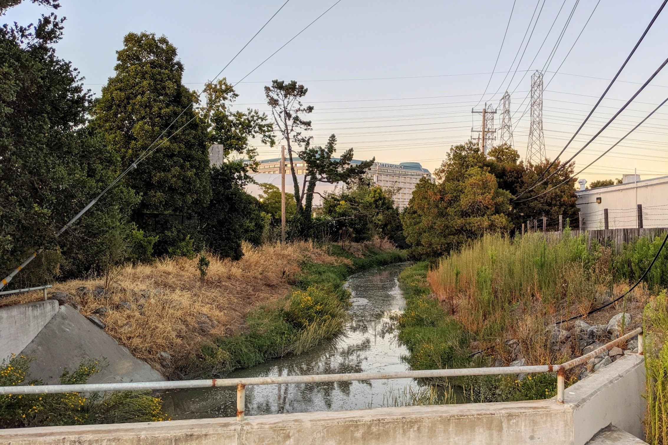 Easton Creek at Rollins Road in Burlingame, California